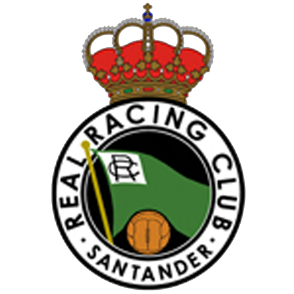 Racing de Santander third crest